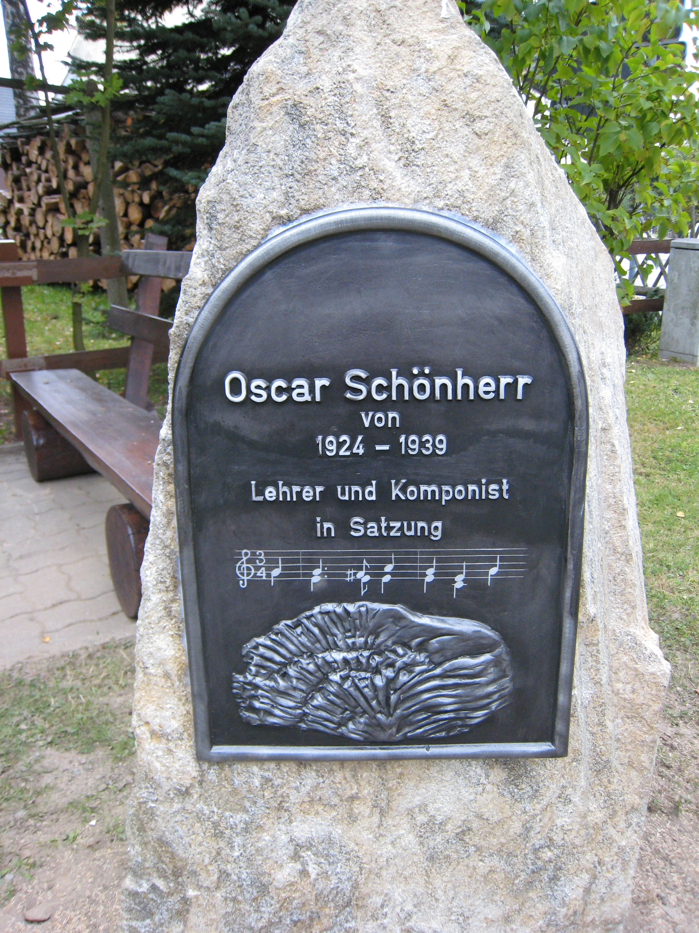 Gedenkstein for Oscar Emil Schönherr